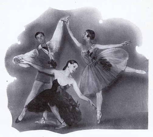 Carina Ari performing her "Ode à la rose" in 1927 together with Serge Peretti and Suzanne Lorcia, in The Élysée Palace, Paris, France.